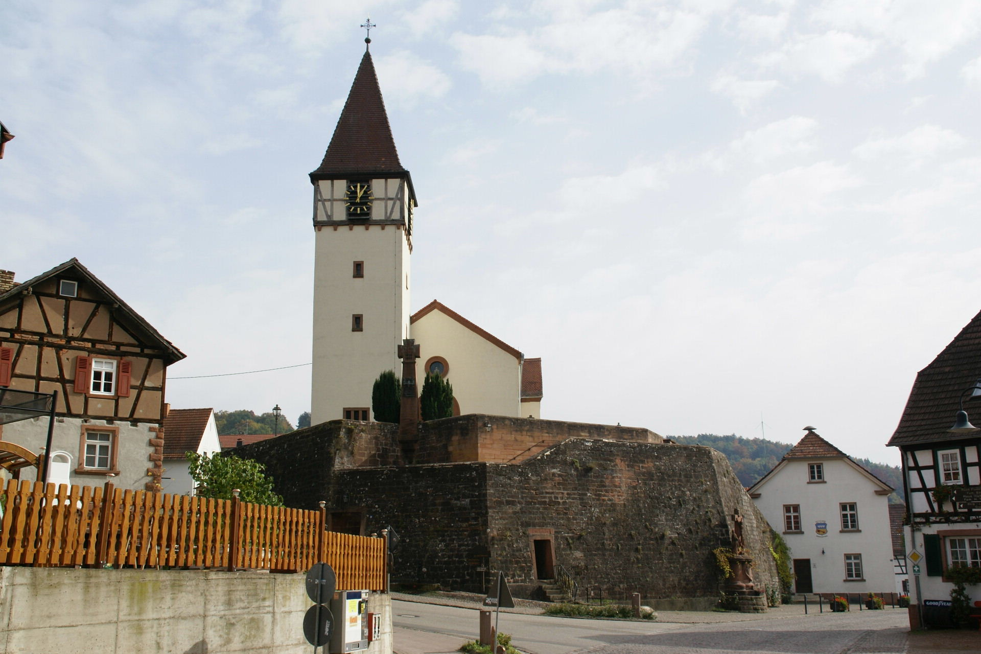 Church in Bundenthal (Palatinate, Germany)